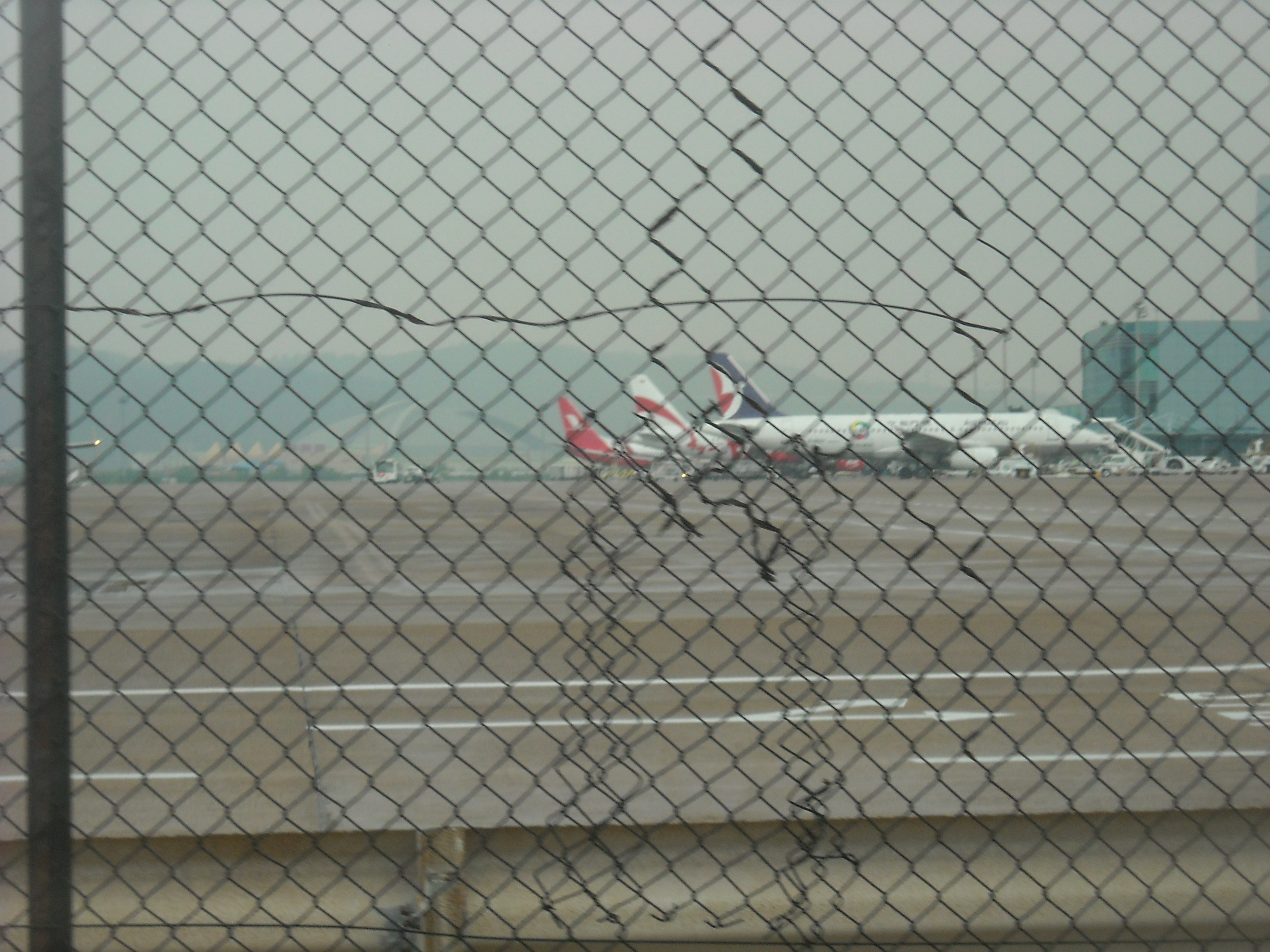 氹仔客運碼頭